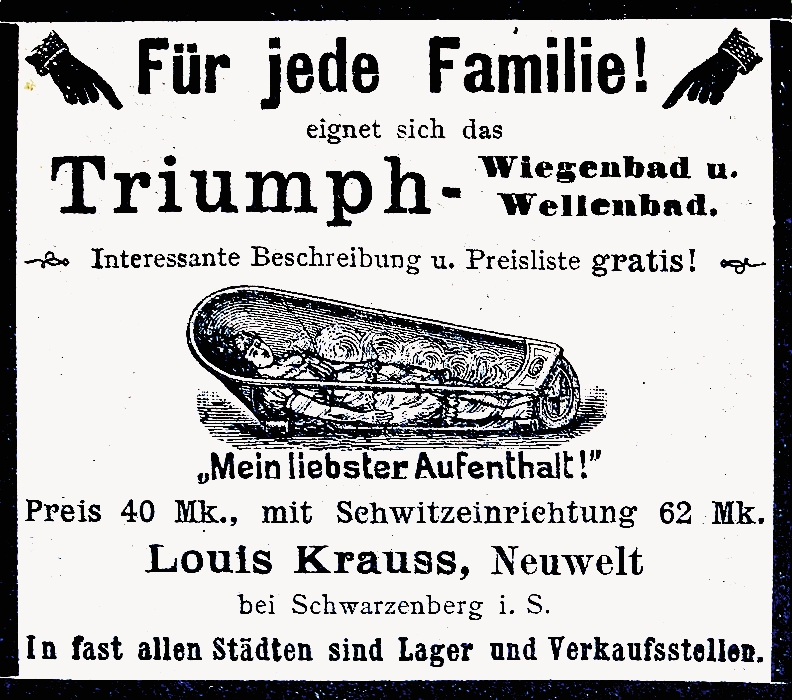 Louis Krauss Advertisement